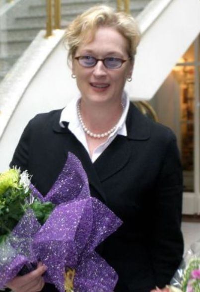 Meryl Streep, Oscar 2012